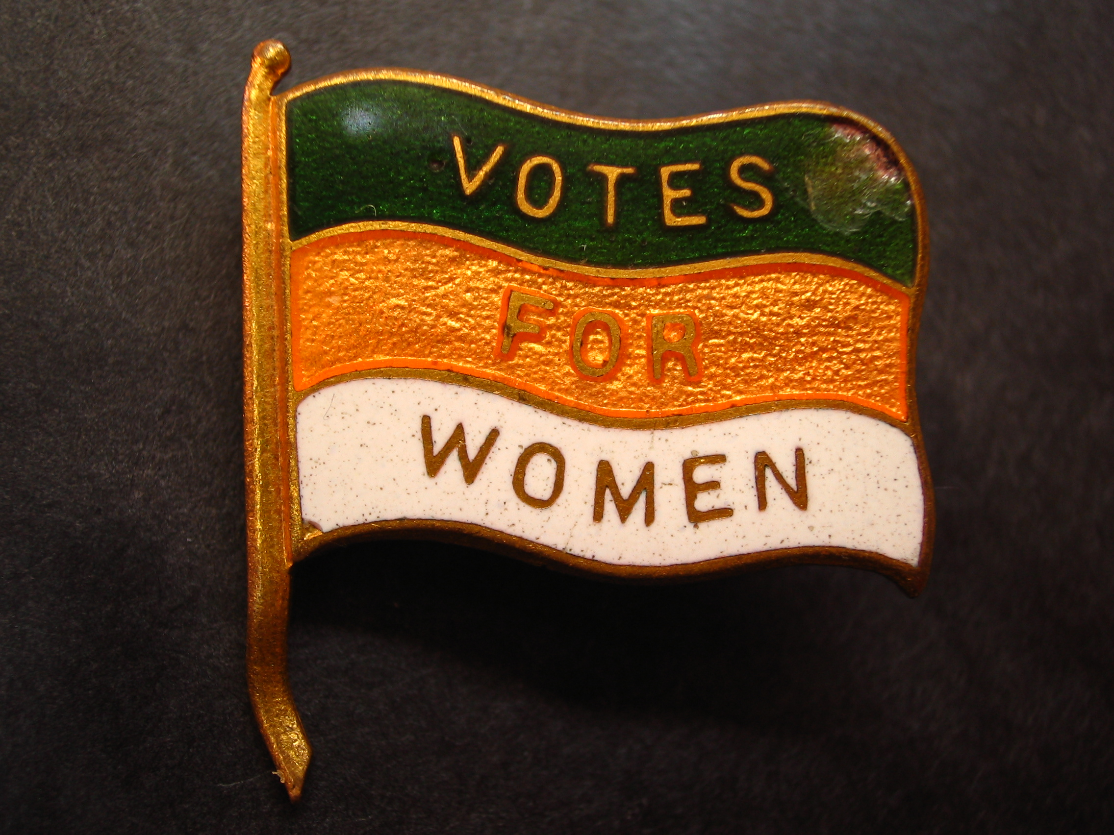 Photograph of an early 20th century British Women's Suffrage lapel pin